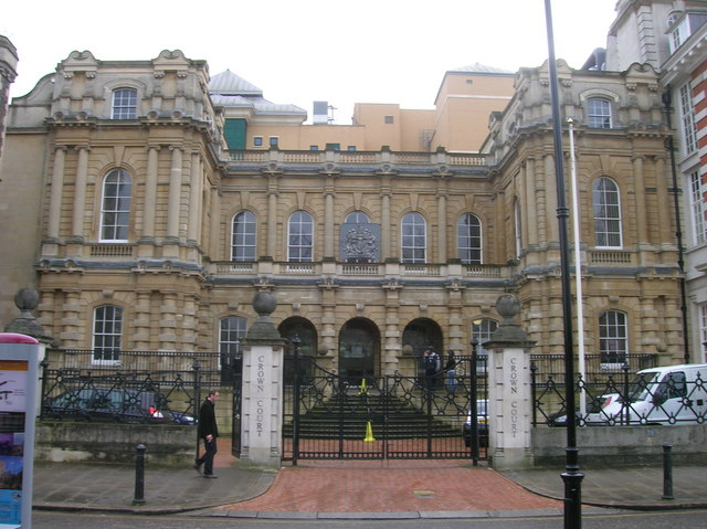 Reading Crown Court, Old Shire Hall, Forbury Road